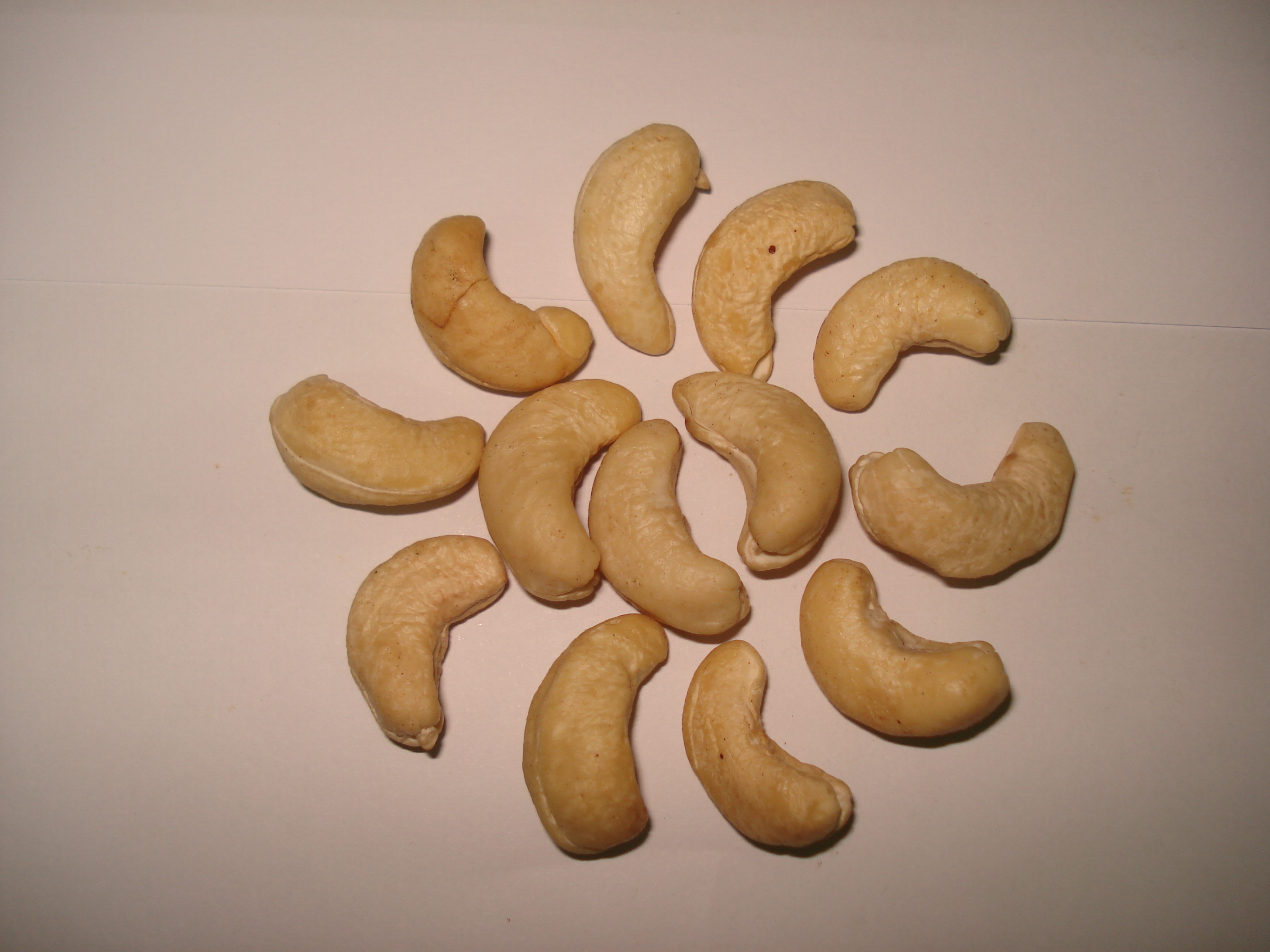 kaju